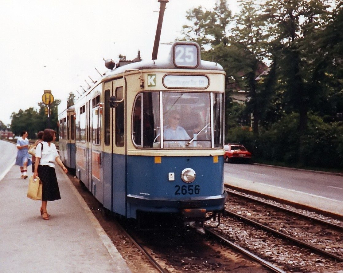 This image shows a tram car of the model M5 (motor and trailer; built in the early 1960s) which I photographed in June, 1979 at the tram stop "Tiroler Platz" in Munich, Germany. The tram ran on line 25 and was No. 5 there at the time according to the small white sign. The white on green ‚K‘ letter shows that tickets (Fahrkarten) are sold by the motorman. The famous advertising banner on the edge of the roof is missing at the first car. Those streetcars of the M's fifth series (M5) used swiveling doors instead of the sliding doors of their precedessors and were equipped with modified one-arm pantographs. The center door moved from the „fourth“ to the „third“ position on the side of the car. Moreover, motor cars with a front coupler began to disappear in the 1970s and 1980s, as the more heavily used routes of the system were operated by the P-type cars with increased capacity, which made M5 consists with two motors followed by a trailer more or less superflous.